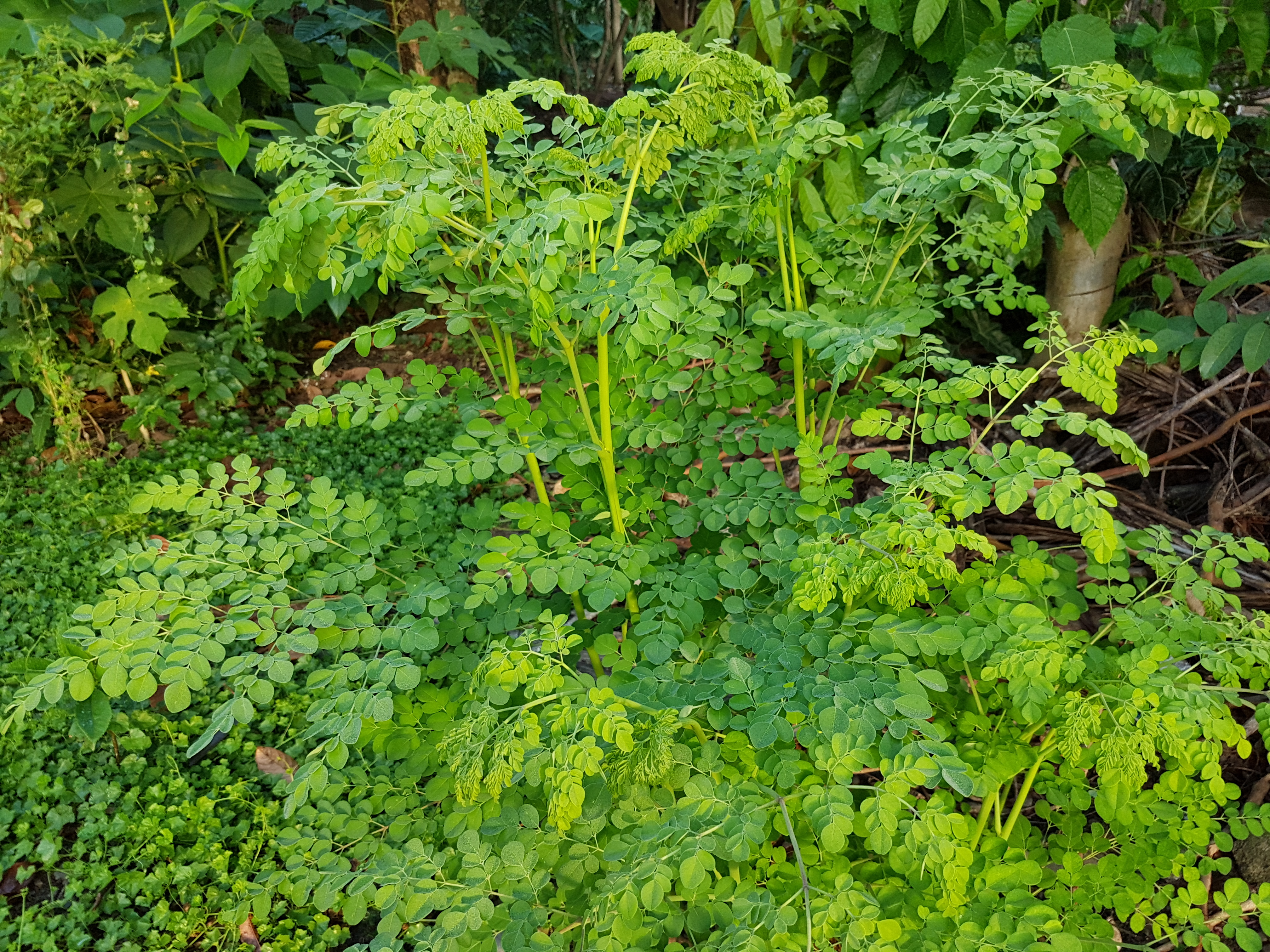 Moringa oleifera leaves, known as kalamungay in the Philippines